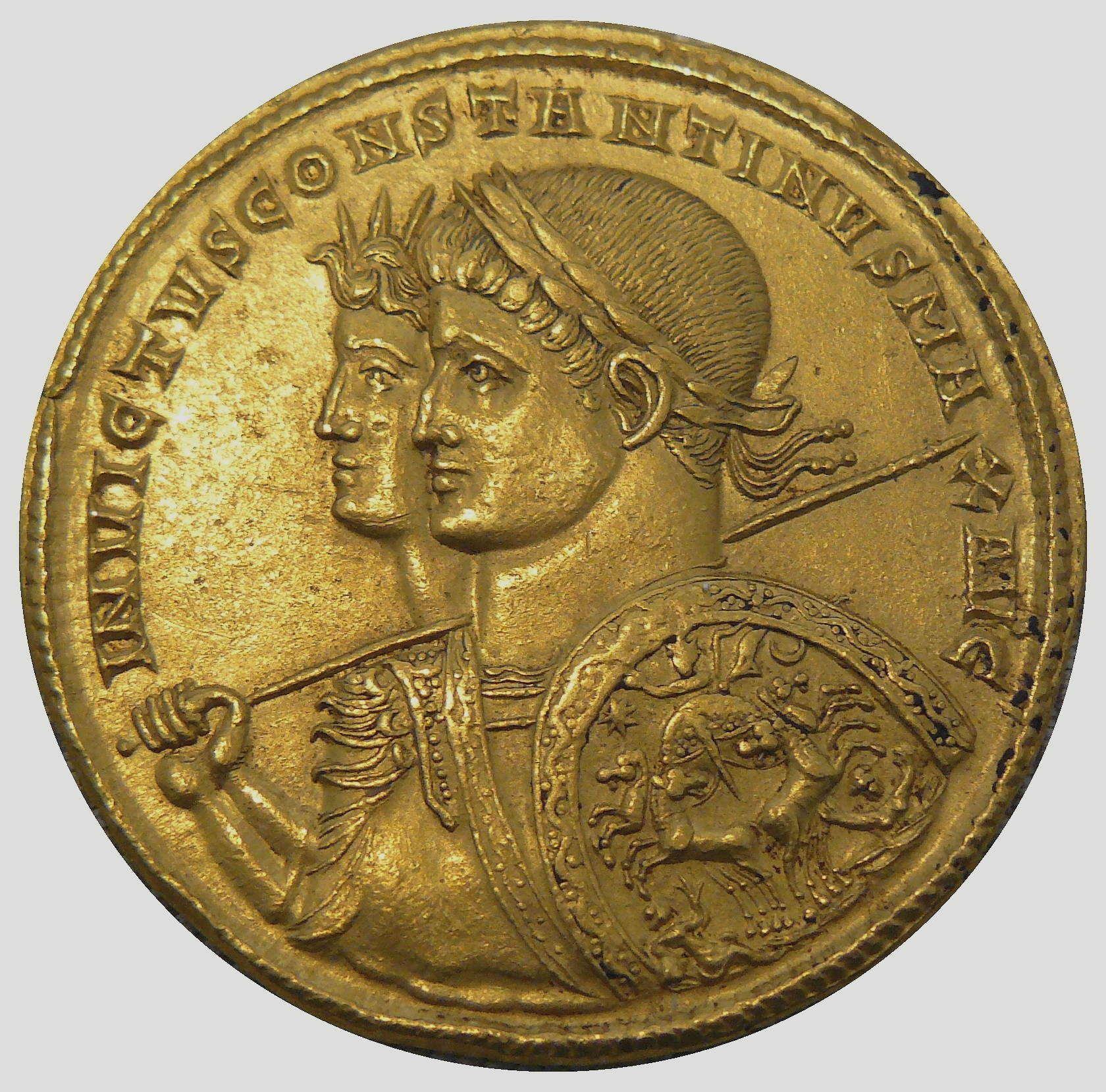 Busts left of Sol Invinctus radiate and Constantine laureate and cuirassed, holding spear over right shoulder and oval shield on left arm with galloping sun quadriga. Gold nine-solidus multiple minted in Tarragone in 313 AD.